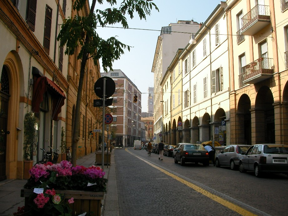 Corso Mazzini to Forlì